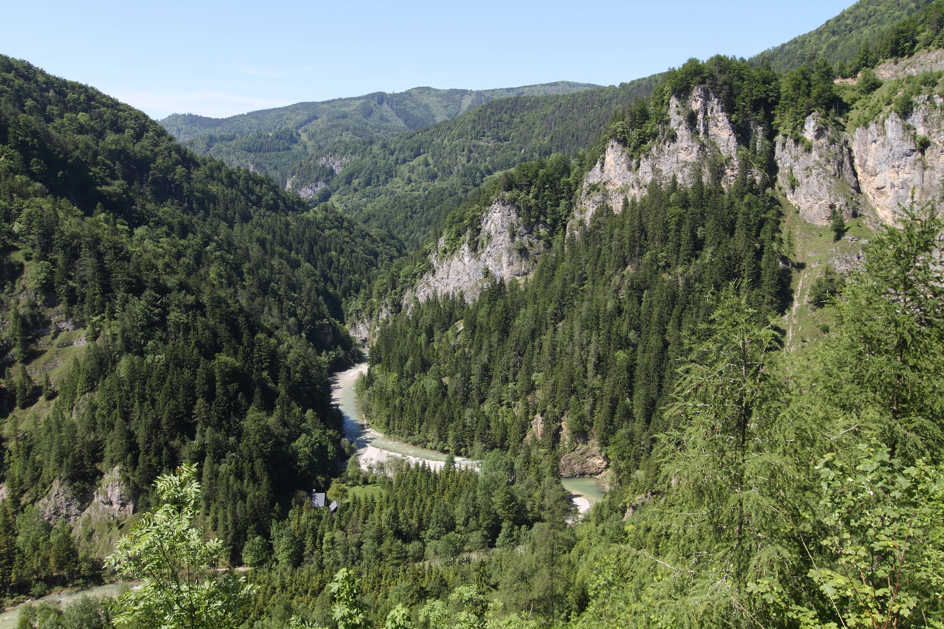 The Erlauf canyon at a place called Toter Mann (dead man), seen from the Ötscher Panoramastraße.